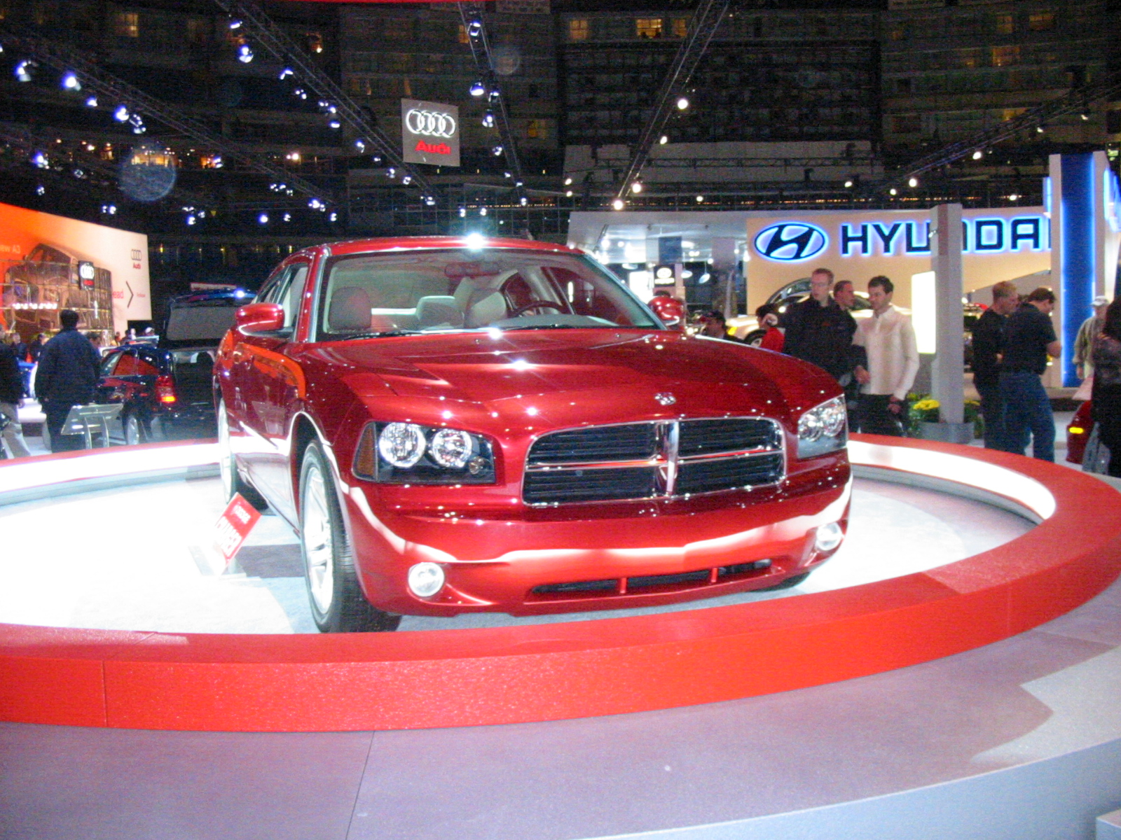 Image from en: Wikipedia, released by IRT.BMT.IND.